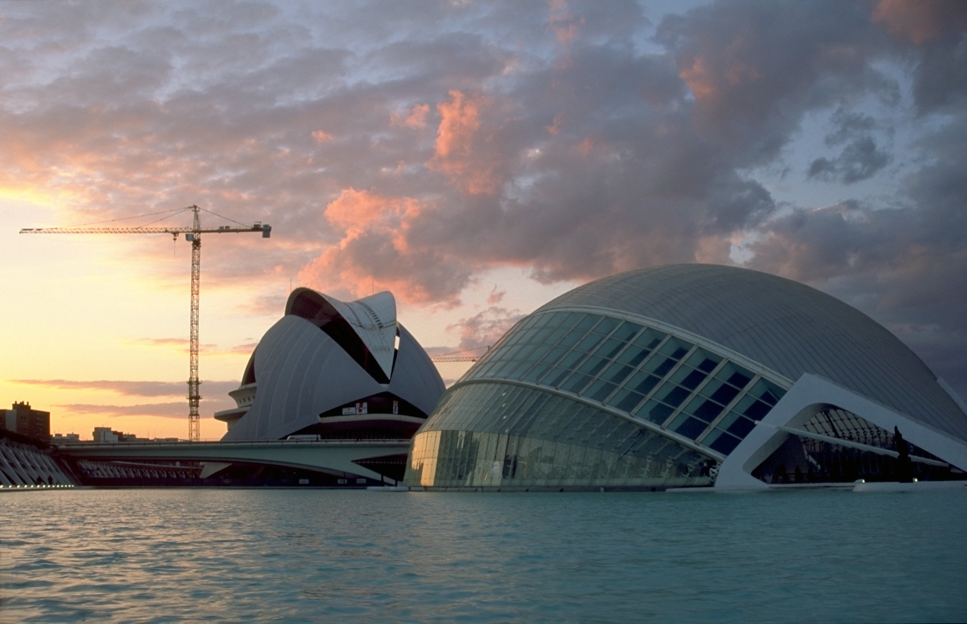 L'Hemisfèric and Palau de les Arts in the so called City of sciences, Valencia Photo was taken using the following technique: Film: Fuji Velvia Lens: 2.8/28 Filter: Body: Minolta 9000 Support: Image with Information in English Bild mit Informationen auf Deutsch